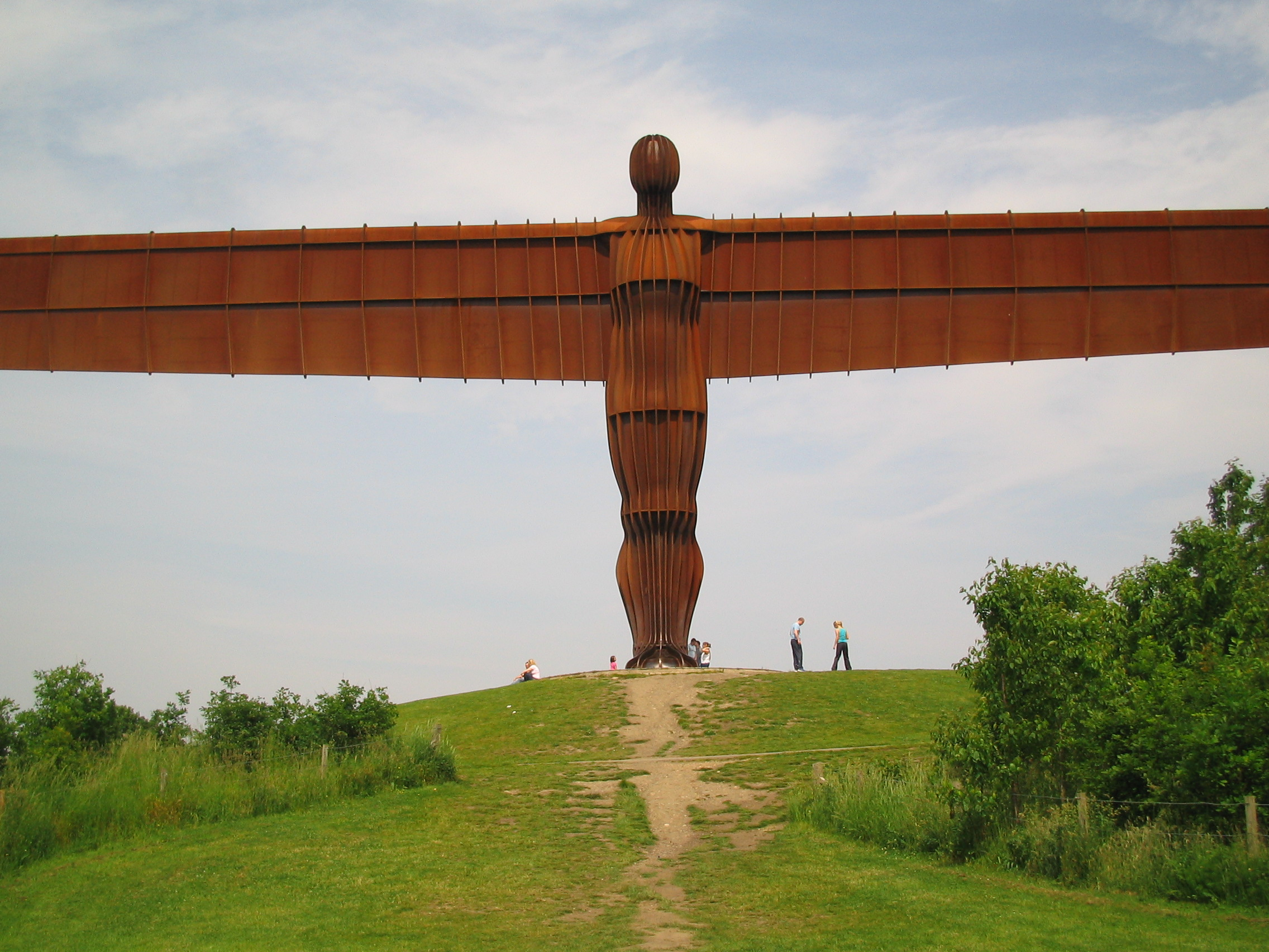 A full frontal view of the Angel of the North, a sculpture by Antony Gormley, in Gateshead, England.